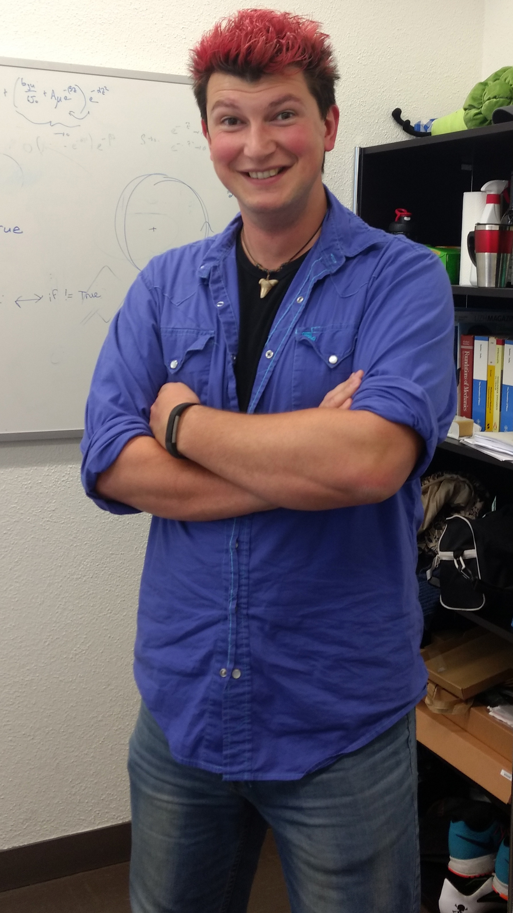 Konstantin Batygin